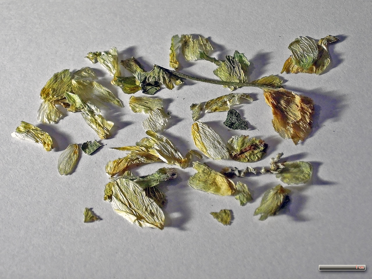 dried Hops (Flower) (Humulus lupulus)